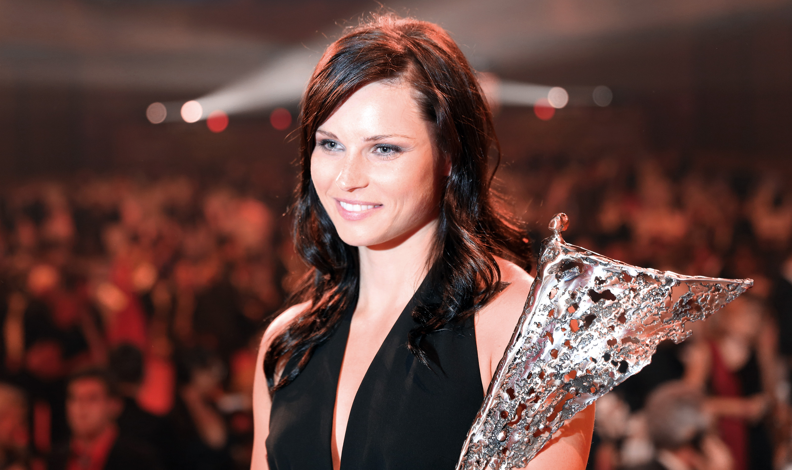 Anna Veith - Austrian Sportspersonalities of the Year 2014 (Austria Center Vienna).